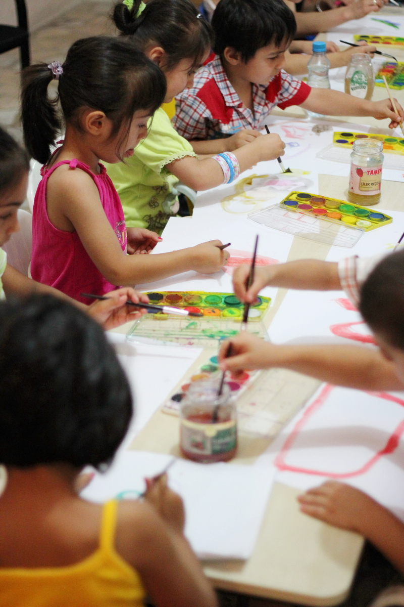 Children having lessons in Halkevleri summer school